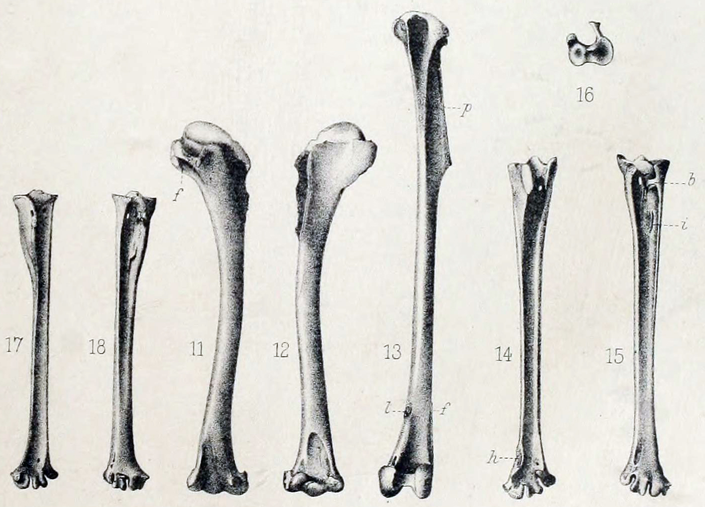 Plate XXXIII from Edward Newton and Hans Gadow's On additional bones of the Dodo and other extinct birds of Mauritius obtained by Mr. Théodore Sauzier. 11–18: Mascarenotus sauzieri 11 Inner view of humerus. f: pneumatic foramen. 12 Outer view of humerus. 13 Left tibia, front view. p: peroneal crest; f: distal portion of fibula ; l: attachment of transverse ligament. 14 Posterior view of right tarso-metatarsus. h: bony bridge across the tendon of the m. tibialis anticus. 15 Anterior view of right tarso-metatarsus. b: facet for the hallux's metatarsal; i: insertion of the m. tibialis anticus. 16 Proximal end of the tarsus. 17 Posterior view of the small pair of tarso-metatarsals. 18 Anterior view of the small pair of tarso-metatarsals.